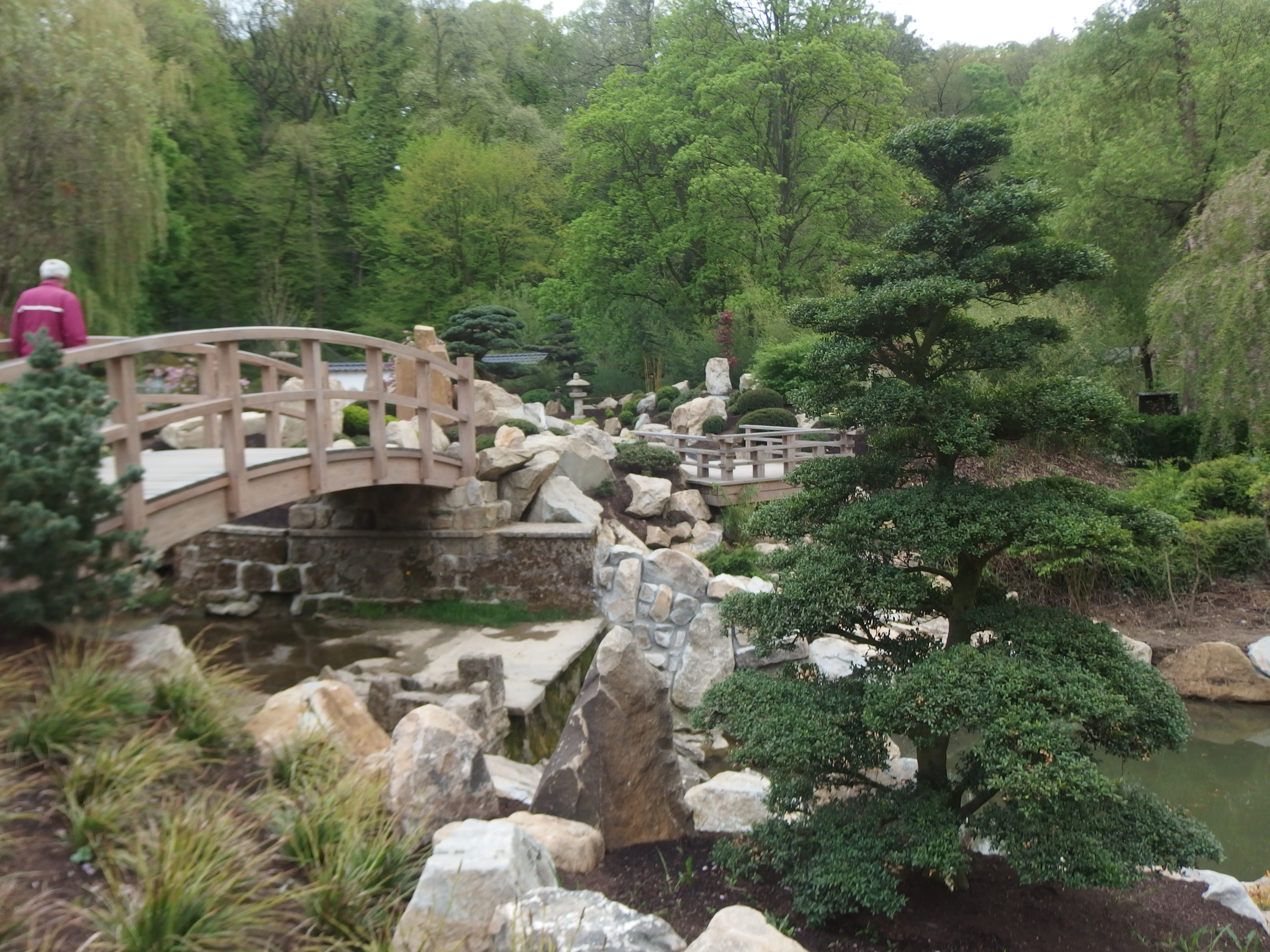 Zoo Zlín, Czech Republic.